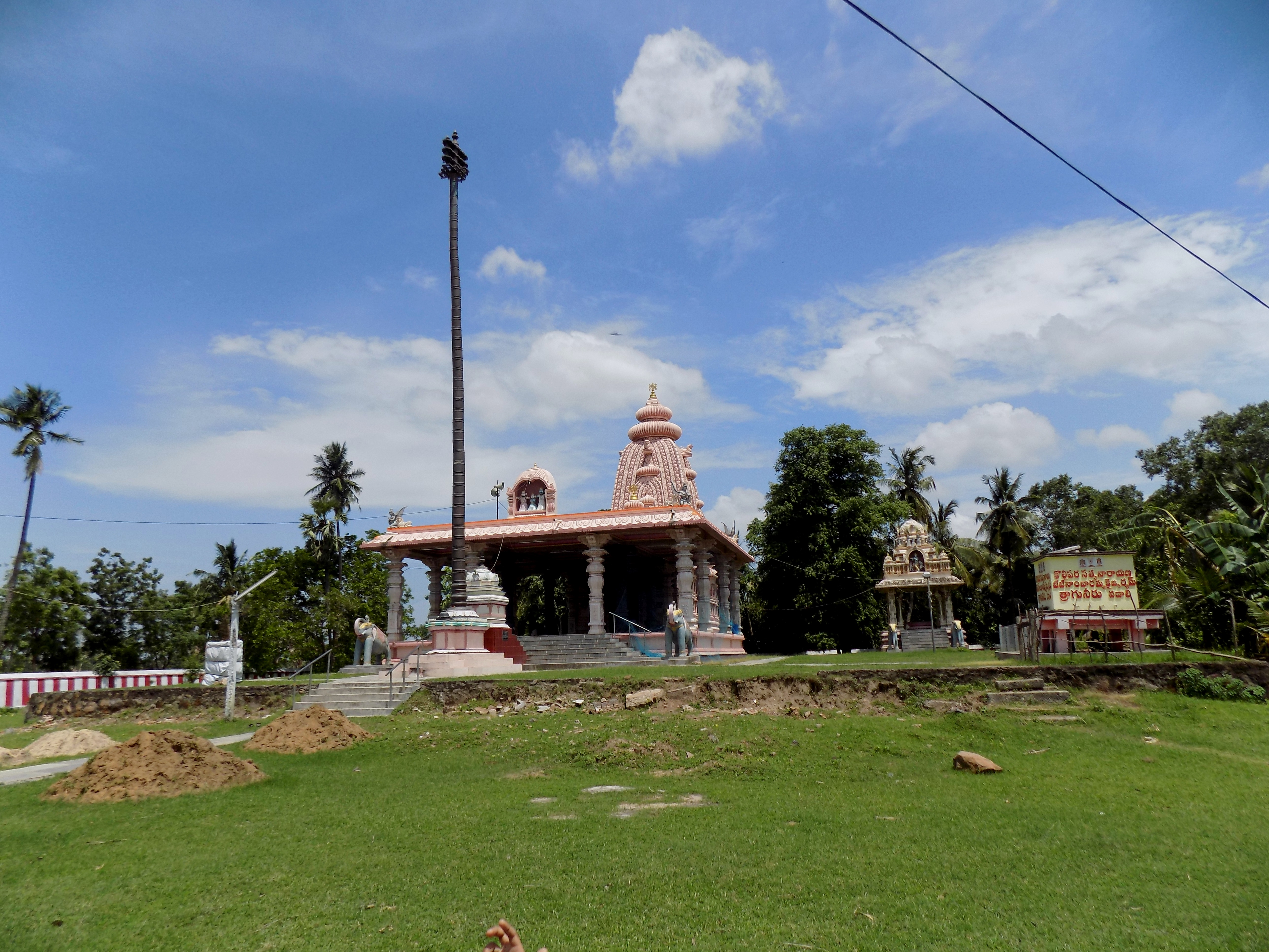 IT IS A VERY BEAUTIFUL TEMPLE IN THE VILLAGE OF CHIGURUKOTA, KRISHNA DISTRICT, ANDHRA PRADESH, INDIA. EVERY YEAR VILLAGERS CELEBRATE THEIR LOCAL FESTIVAL IN THE MONTH OF AUGUST COMMEMORATING THE BIRTH OF LORD KRISHNA. This photo has been taken in the country: India